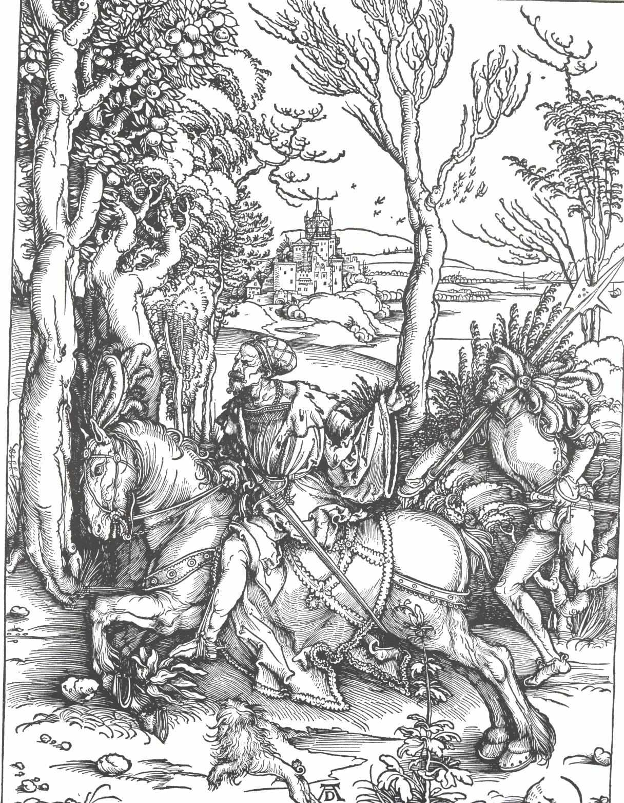 Knight and Landsknecht